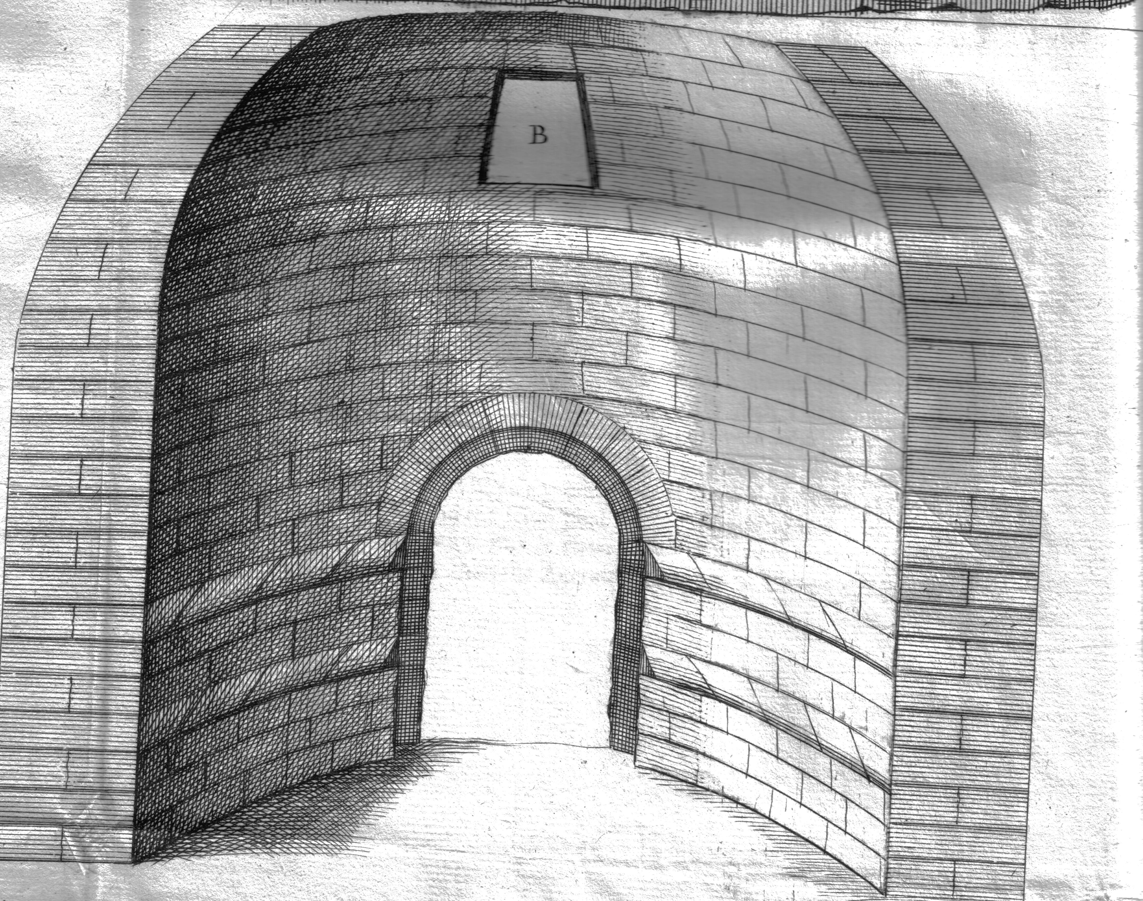 The Interior of Arthur's O'on at Stenhousemuir, Scotland.